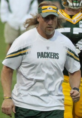 Green Bay Packers outside linebackers coach Kevin Greene during preseason training camp at Ray Nitschke Field, Green Bay Wisconsin, August 5, 2011